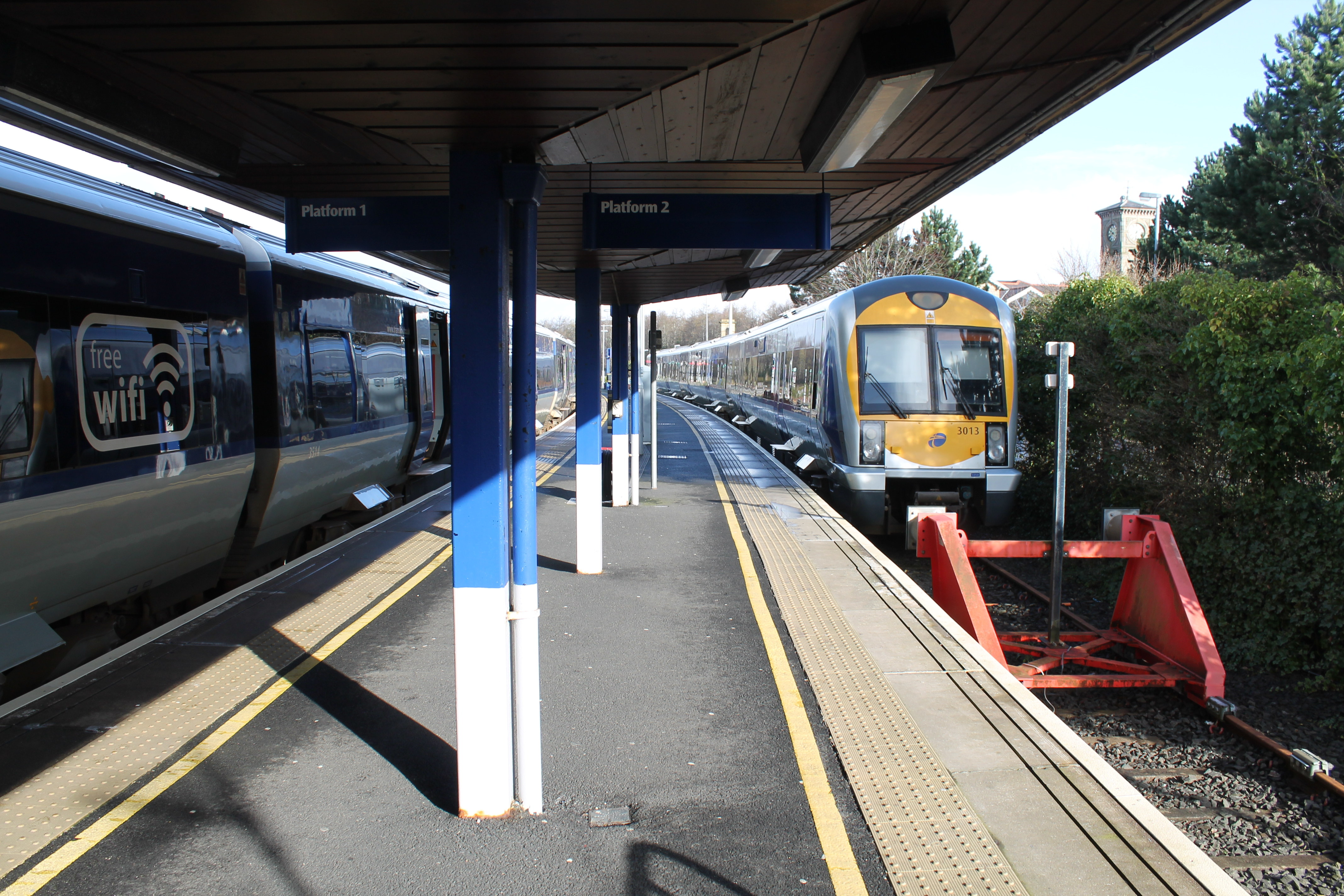 Londonderry railway station. Feb 2015.